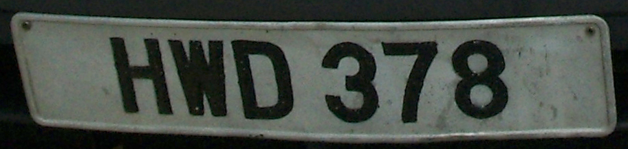 Malaysian licence plate. Registered from Kuala Lumpur